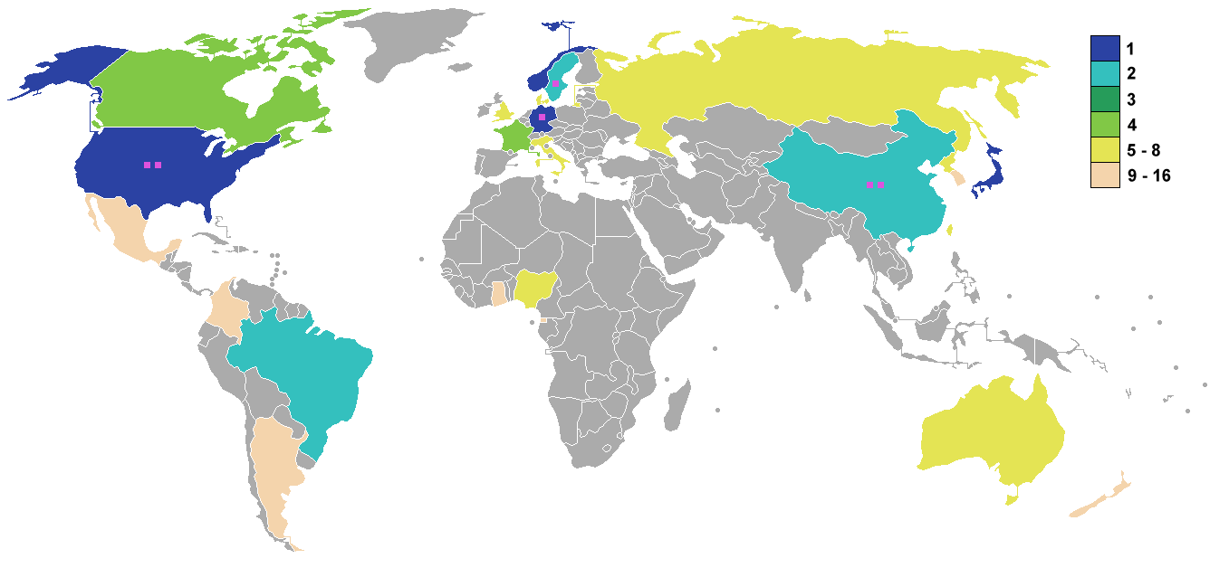 world cup wommen best result and hosts